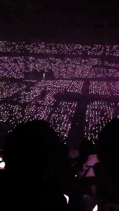 Stay Fanchant ft PINK OCEAN BLACKPINK.